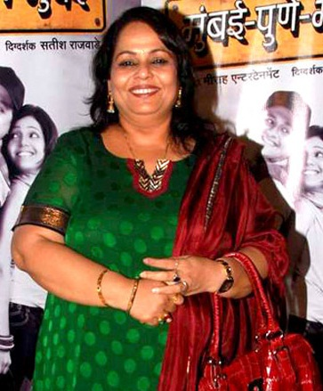 Nirmiti Sawant at premiere of Marathi film 'Mumbai Pune Mumbai'